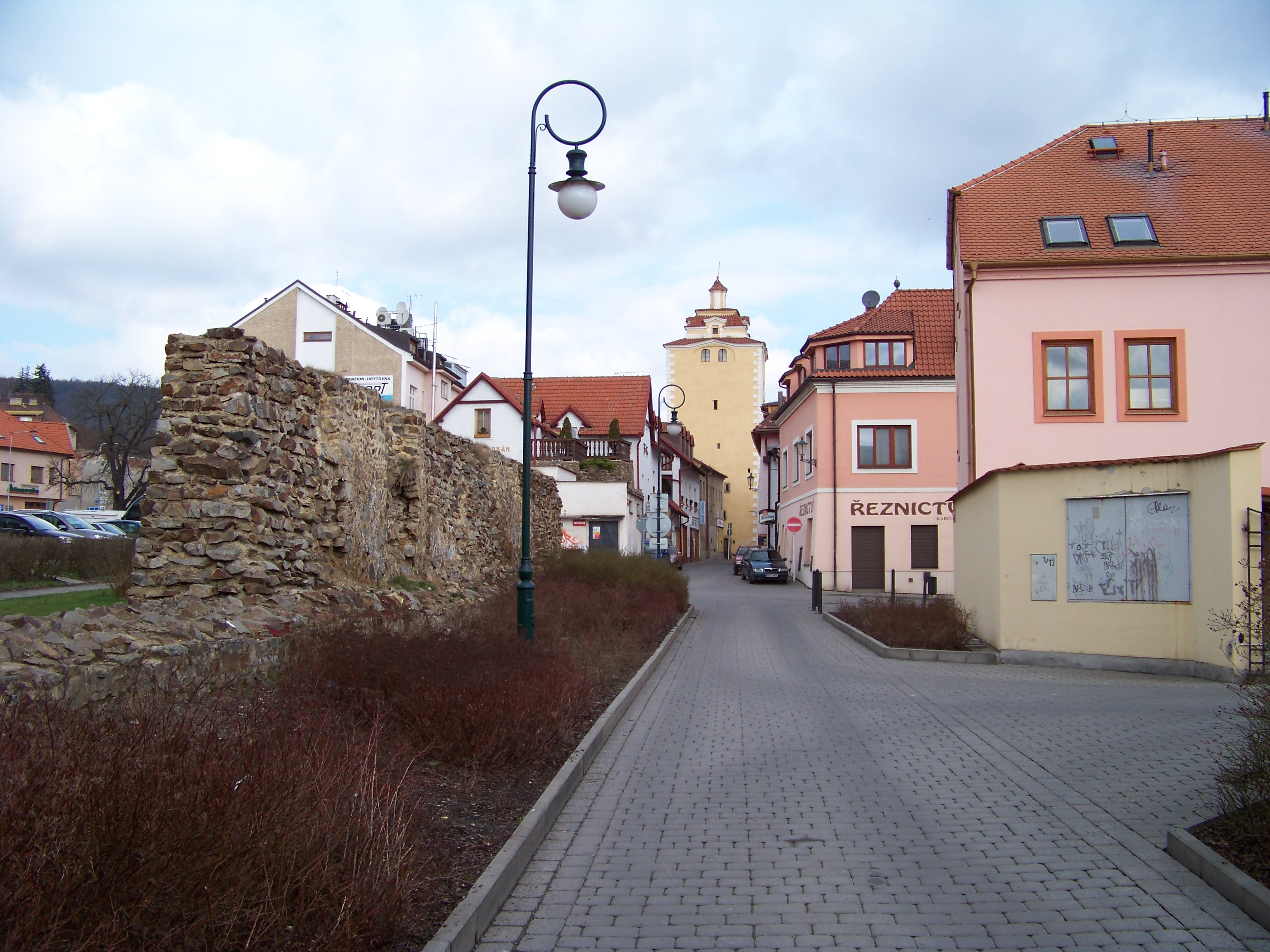 Beroun, Beroun District, Central Bohemian Region, the Czech Republic. Hrdlořezy and Hornohradební streets, city walls.